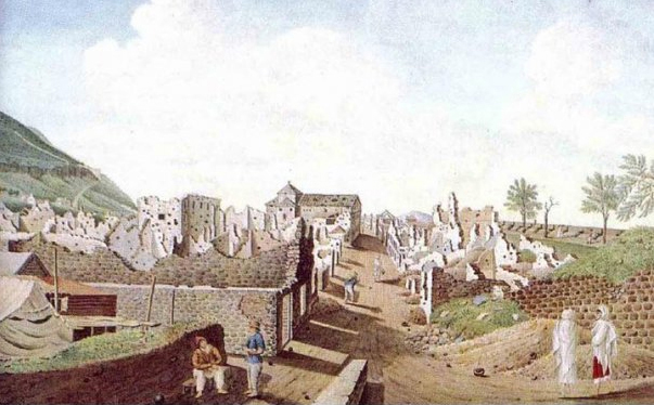 Main Street after the Siege by Captain Davis looking South. Image comes from Gibraltar Museum and its provenance is established in The Fortifications of Gibraltar 1068-1945 by Fa and Finlayson page 28